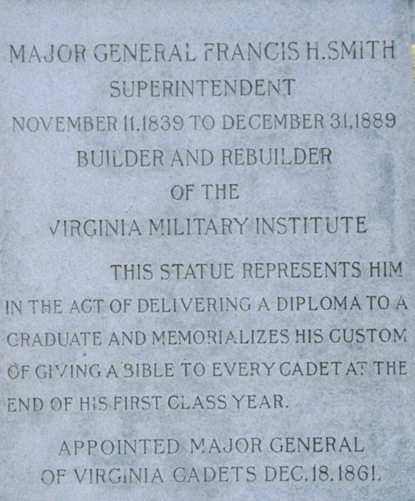 Photo taken at V.M.I by "Brother Officer"